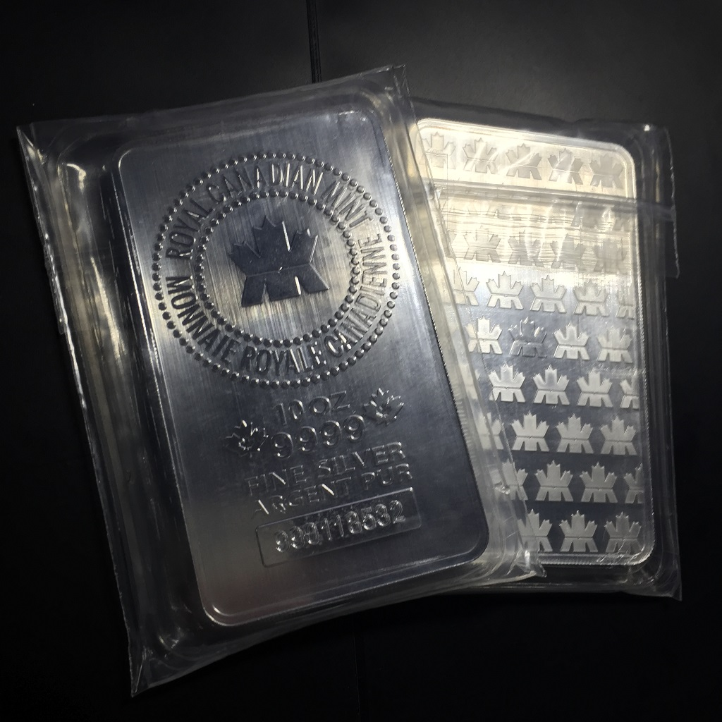 Canadian RCM 10 oz silver bar, OBV and REV.